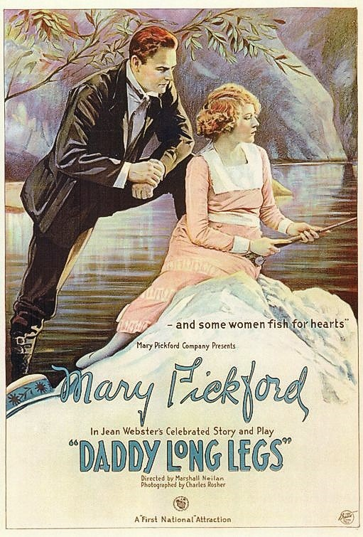 Movie poster for Daddy-Long-Legs